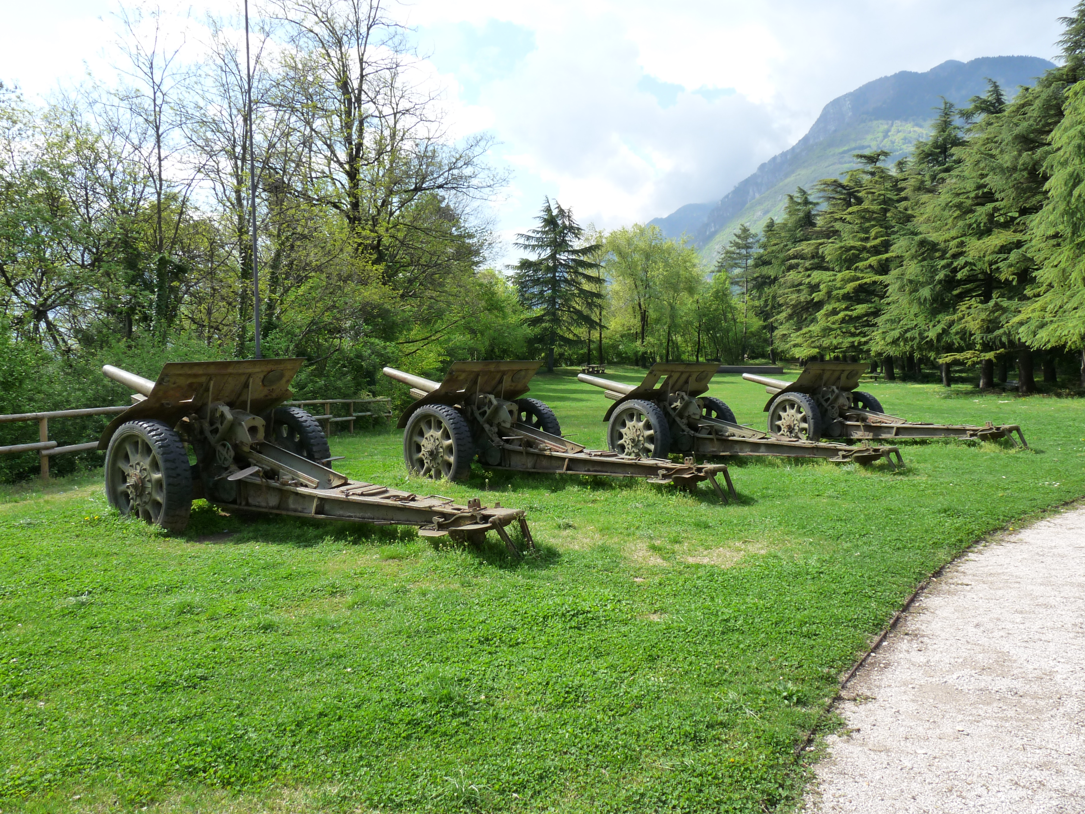 Trento (Italy): cannons 105/28 of the "Batteria Battisti" on the top of Doss Trento, near the mausoleum of Cesare Battisti